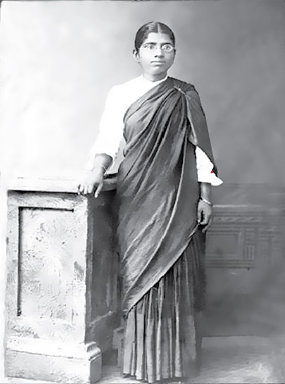 Muthulakshmi Reddy as a medical student (Madras Medical College, 1907-1912).